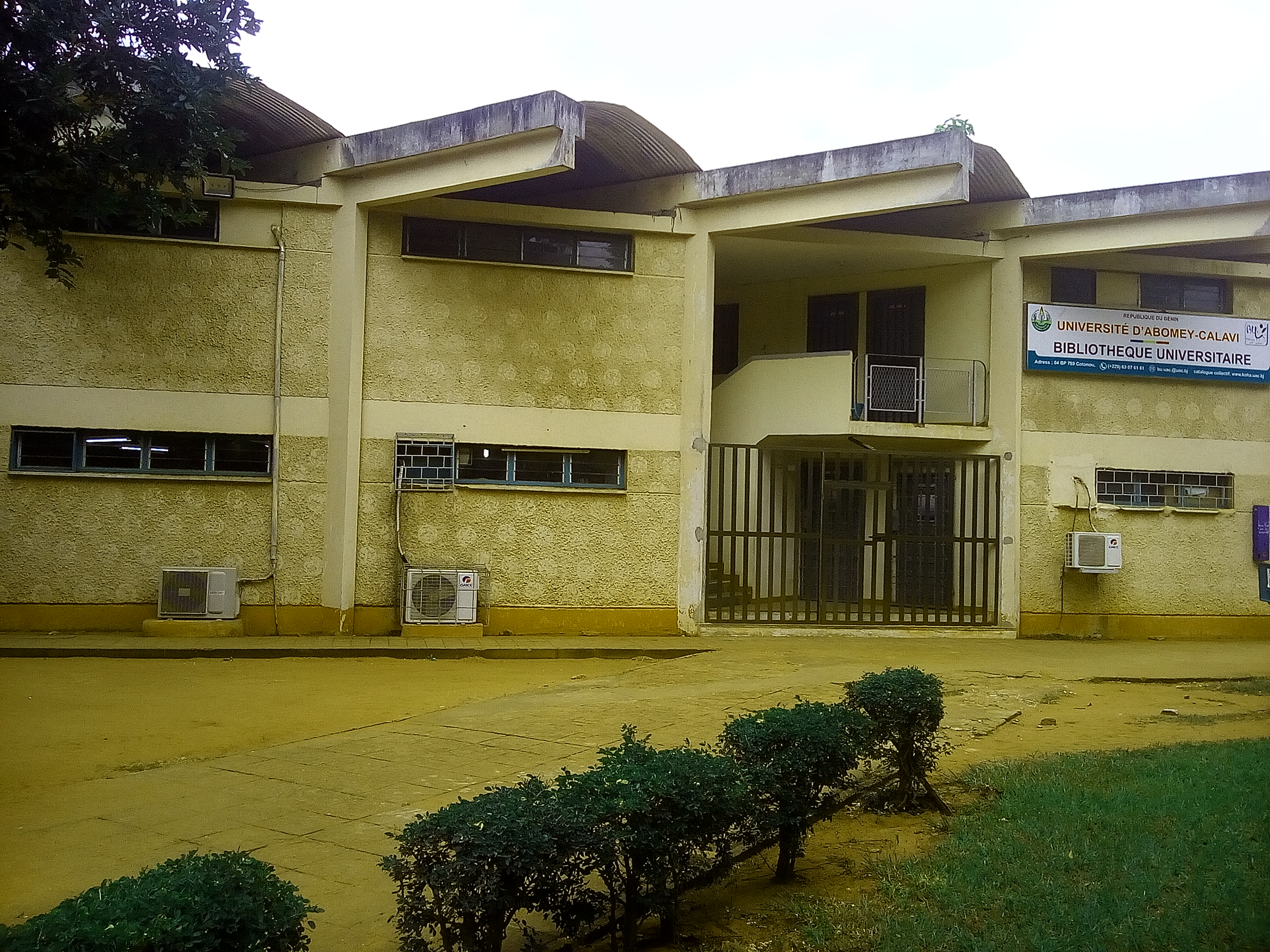 centre de documentation de L'UAC